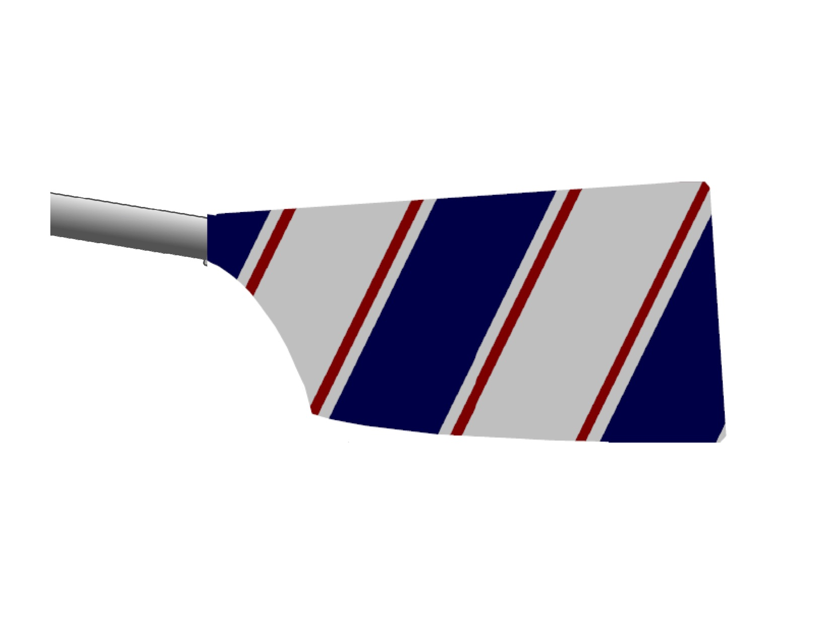 This file is a digital rendering of the blade design of the East India Club Rowing Section.